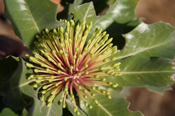 Banksia ilicifolia in late bud, near Weroona, WA Photo - Cas Liber